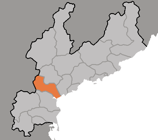 Map of Hamju, Hamgyong-namdo, DPRK, 2006